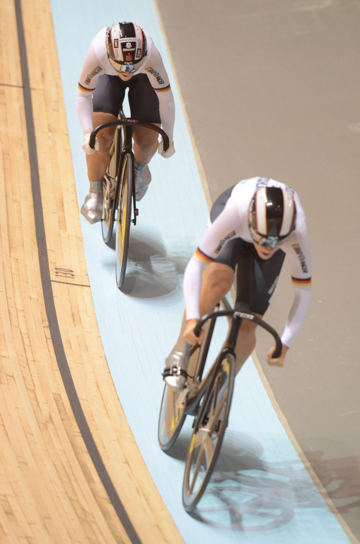 German women team in teamsprint, Miriam Welte (front) and Kristina Vogel, at the WC 2012 in Melbourne